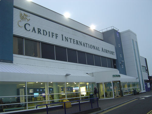 Nearby Cardiff International Airport . This was taken in 2006.